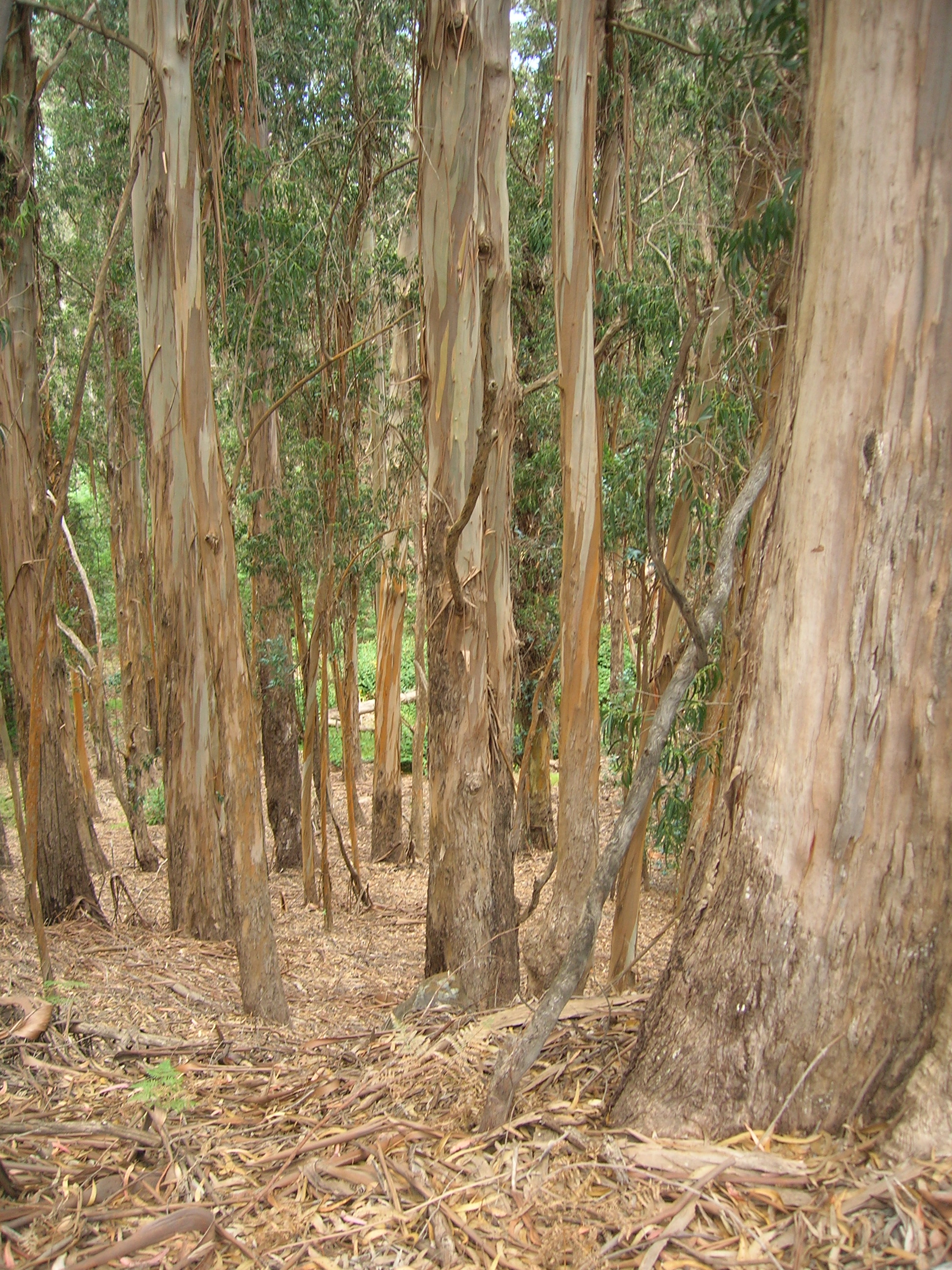 Eucalyptus globulus (habit). Location: Maui, Olinda